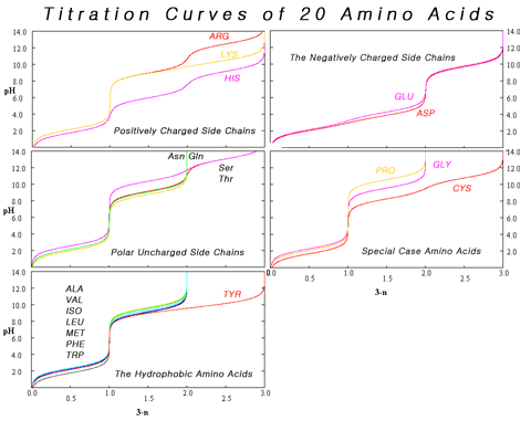 Composite by L. Van Warren / Sorted as in Dan Cojocari, et. al. Using applet